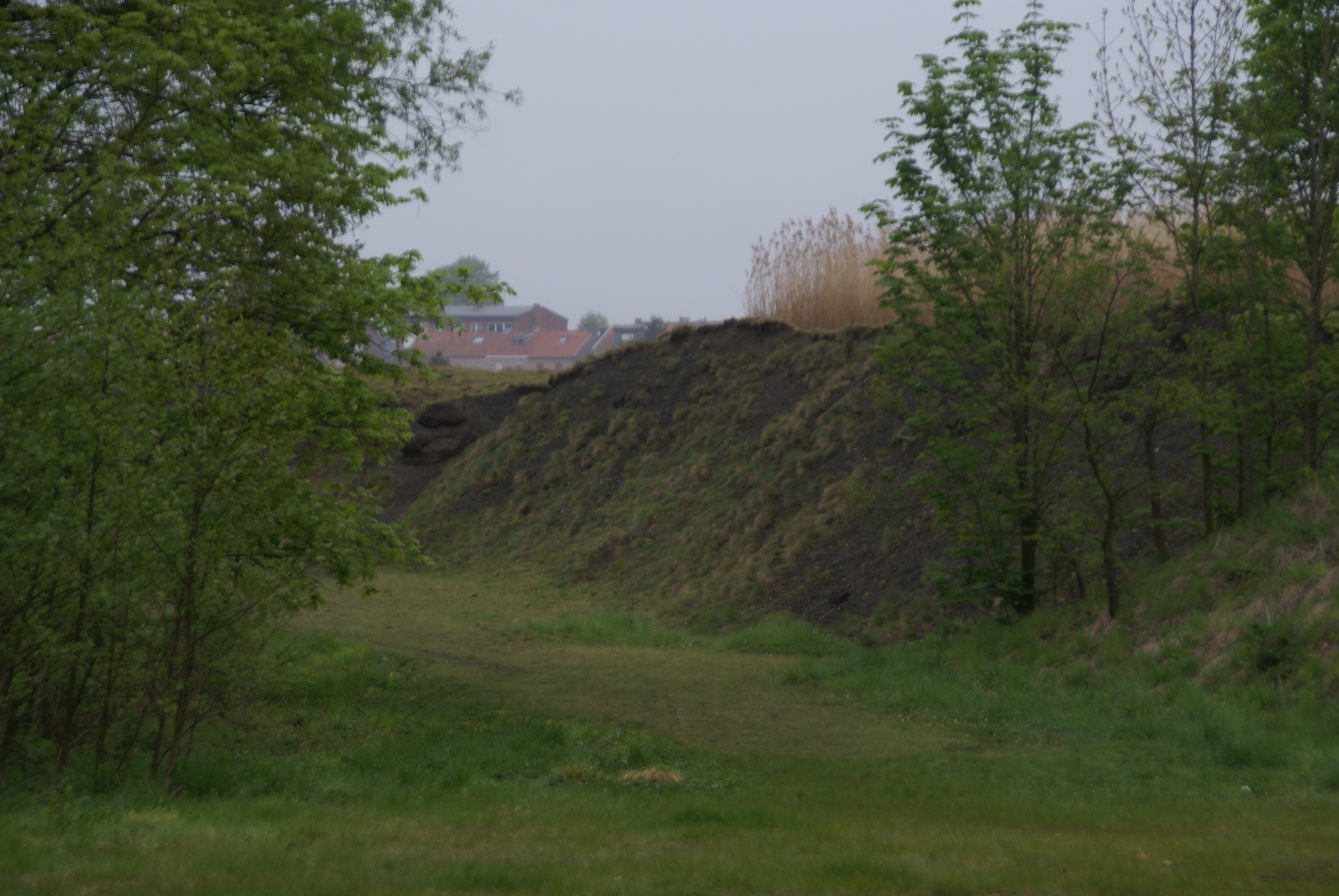 Kelmis (Belgium): Old slag heap in the nature reserve Altenberg